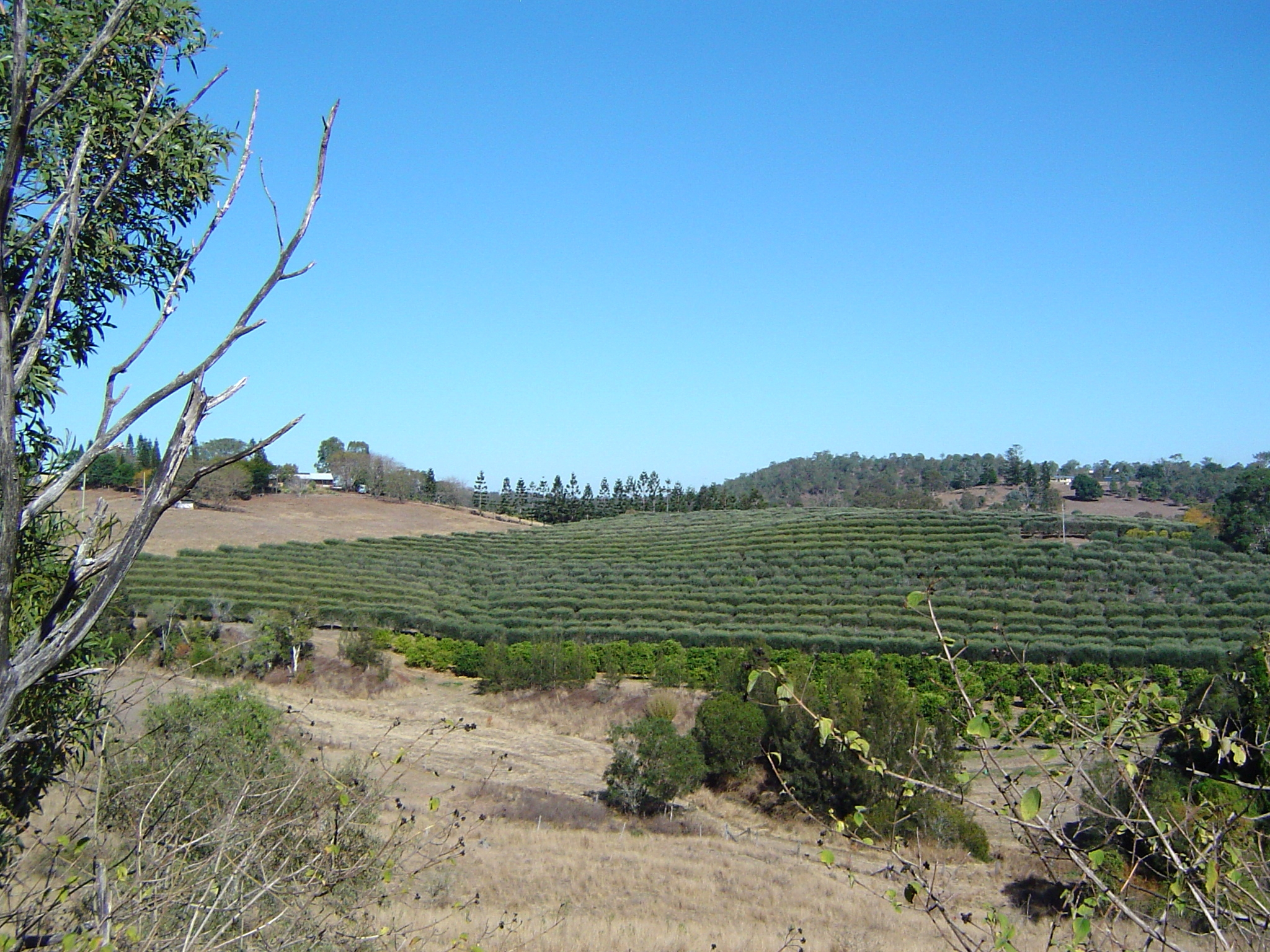 Photo of Olive crop at Pine Mountain, City of Ipswich, Queensland, Australia.